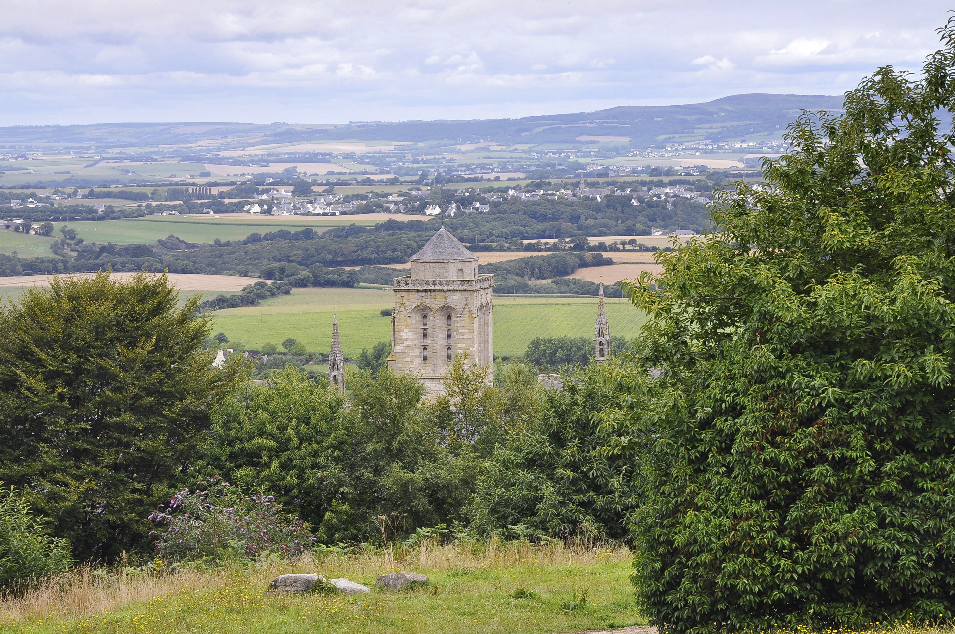 On the way to the manor of Kerguenole, Locronan in Finistère in Brittany, France. In the foreground is visible the tower of the Church St. Ronan.